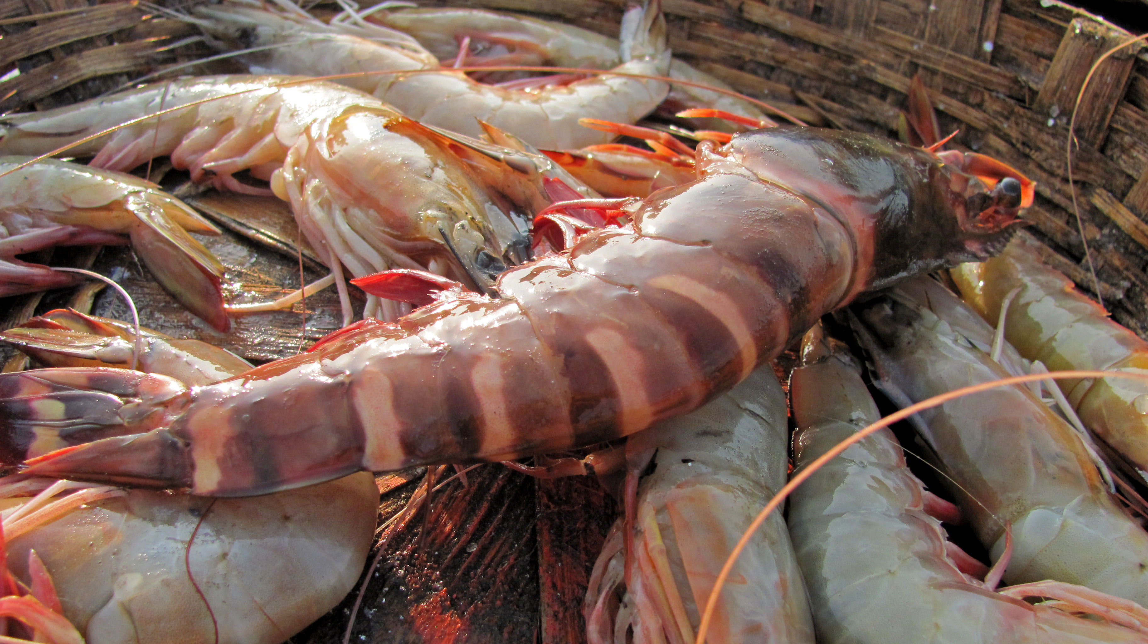 Asian tiger shrimp